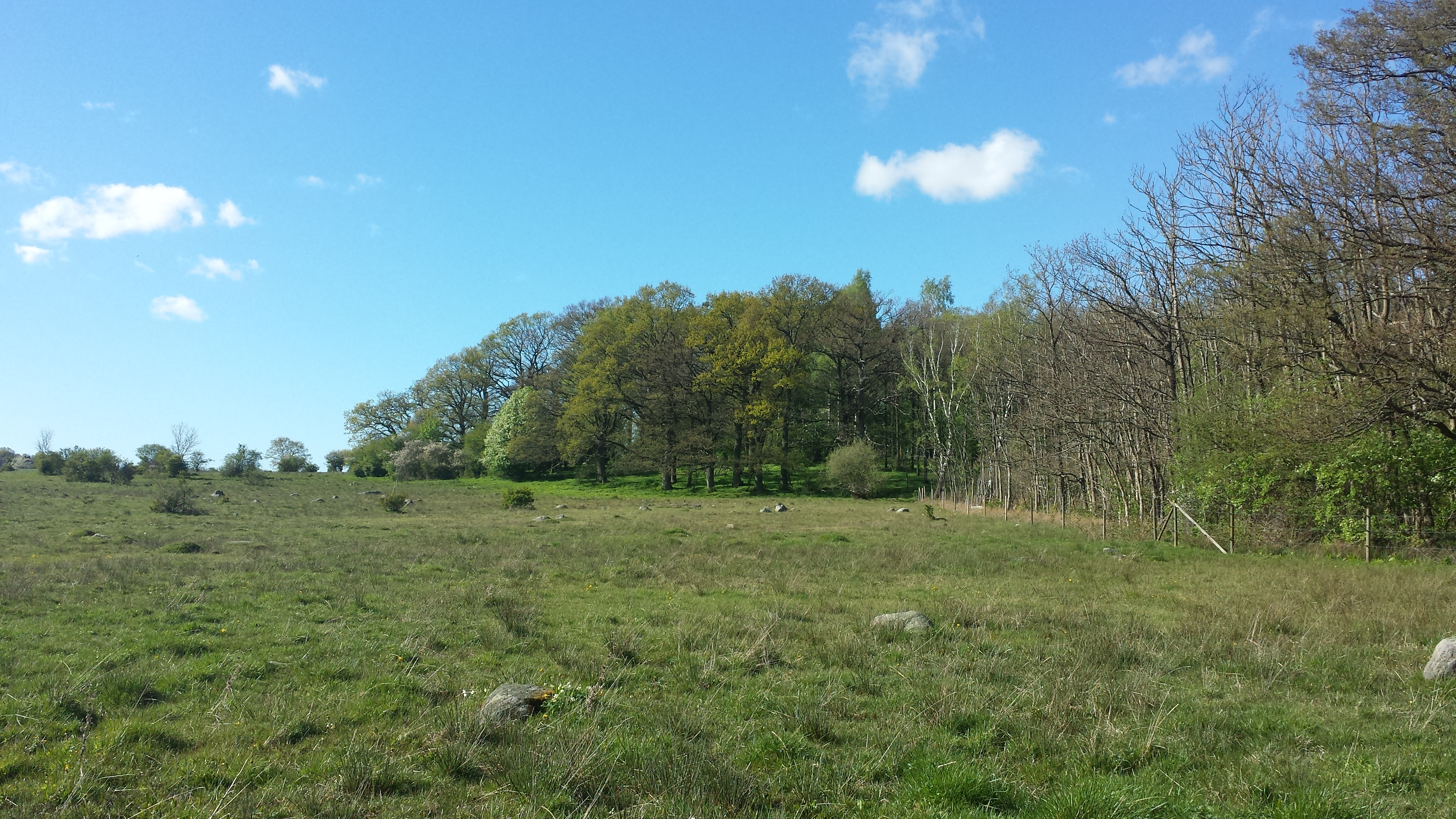 Standing in Dalby Hage looking towards Dalby Norreskog Nature Reserve. Scania, Sweden - May 2015.